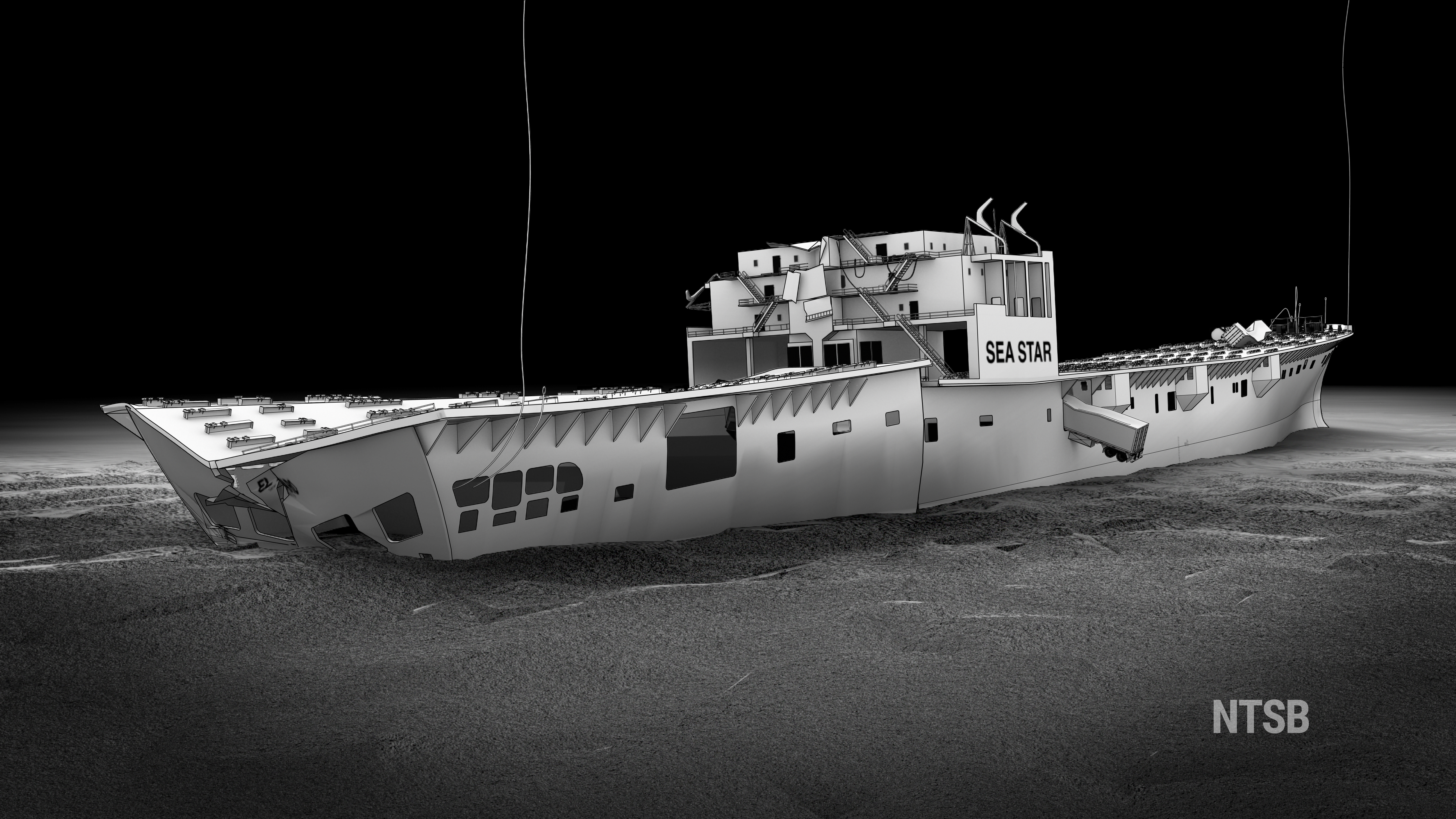 An accurately-scaled, computer-generated illustration of El Faro’s main hull as it rests on the ocean bottom, viewed from the starboard quarter. The hull is largely intact. The ship’s house is missing the bridge deck and the deck below it, as well as the main mast and exhaust stack. (Flooding of Cargo Holds presentation)